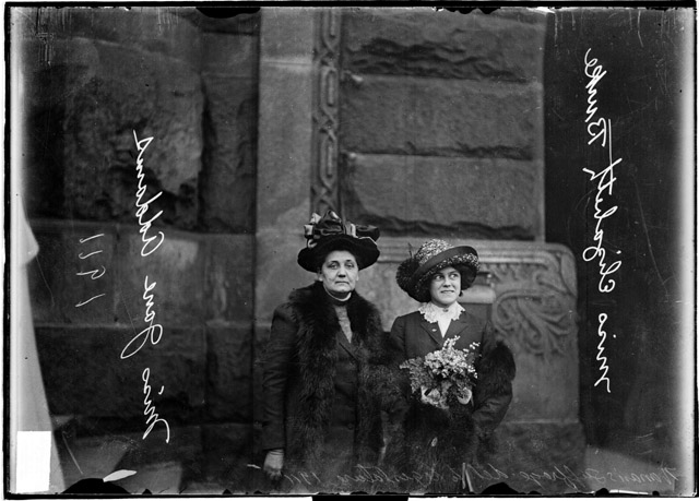 Delegation to the Women's Suffrage Legislature Jane Addams of Hull House (left) and Miss Elizabeth Burke of the University of Chicago